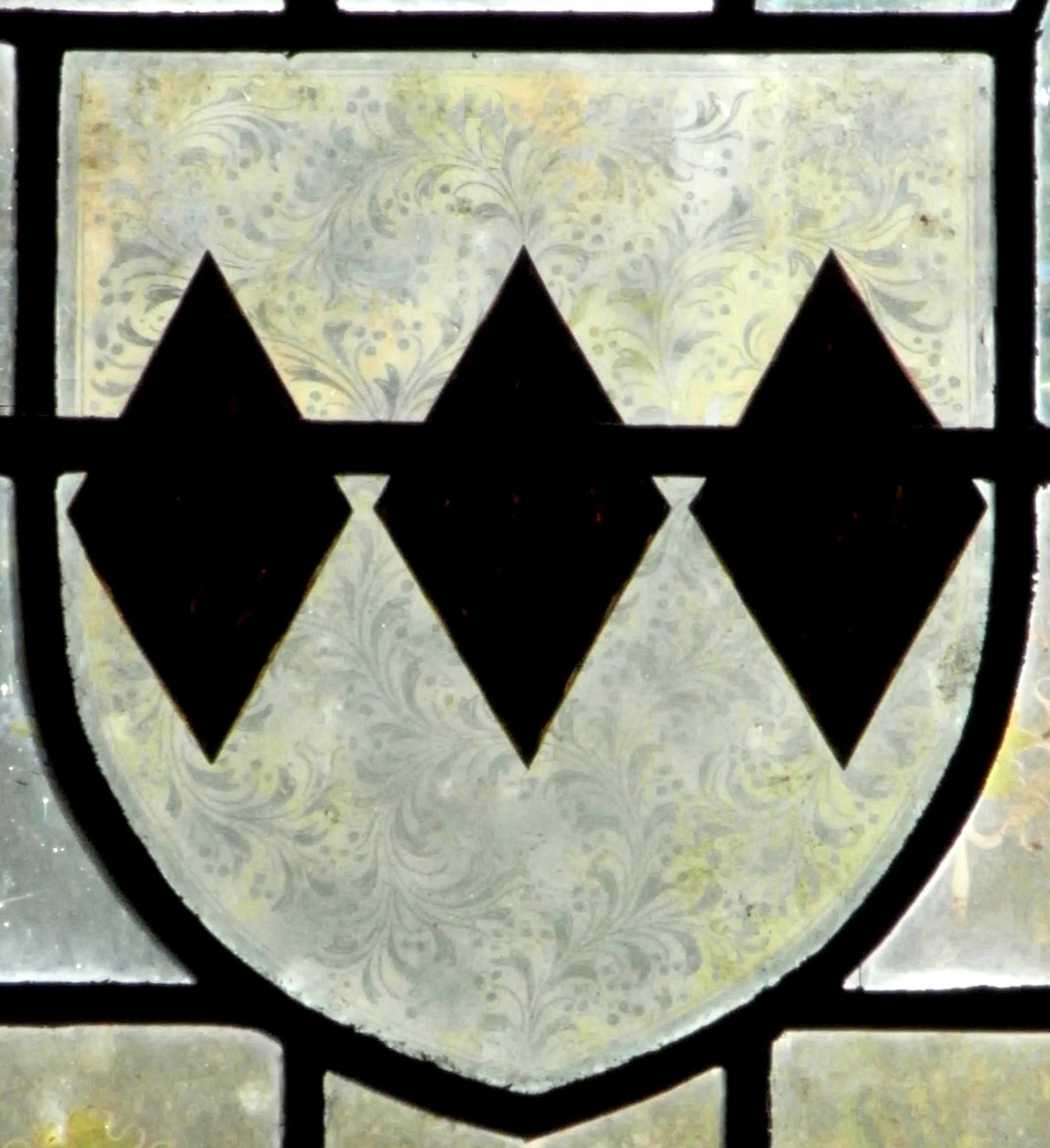 Arms of Tuckfield of Little Fulford in the parish of Shobrooke, near Crediton, Devon: Argent, three lozenges in fess sable. Detail from 19th century heraldic stained-glass window in Holy Cross Church, Crediton.